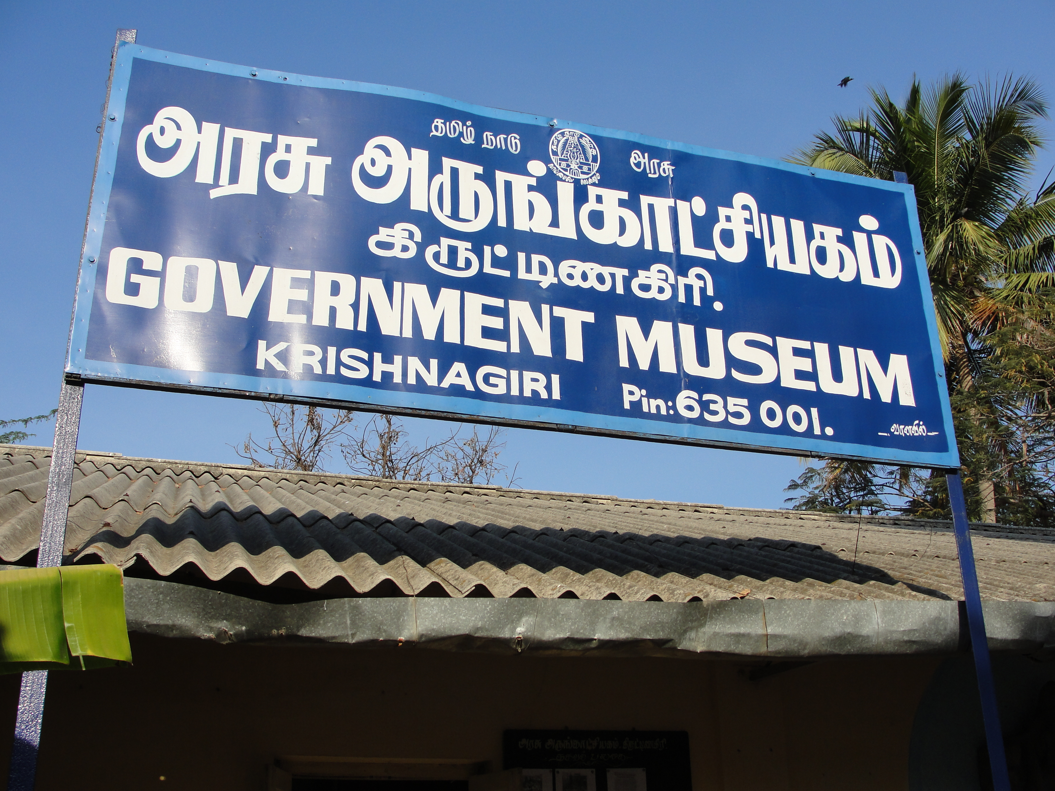 A sign board in Government museum Krishnagiri, Tamil Nadu, India.